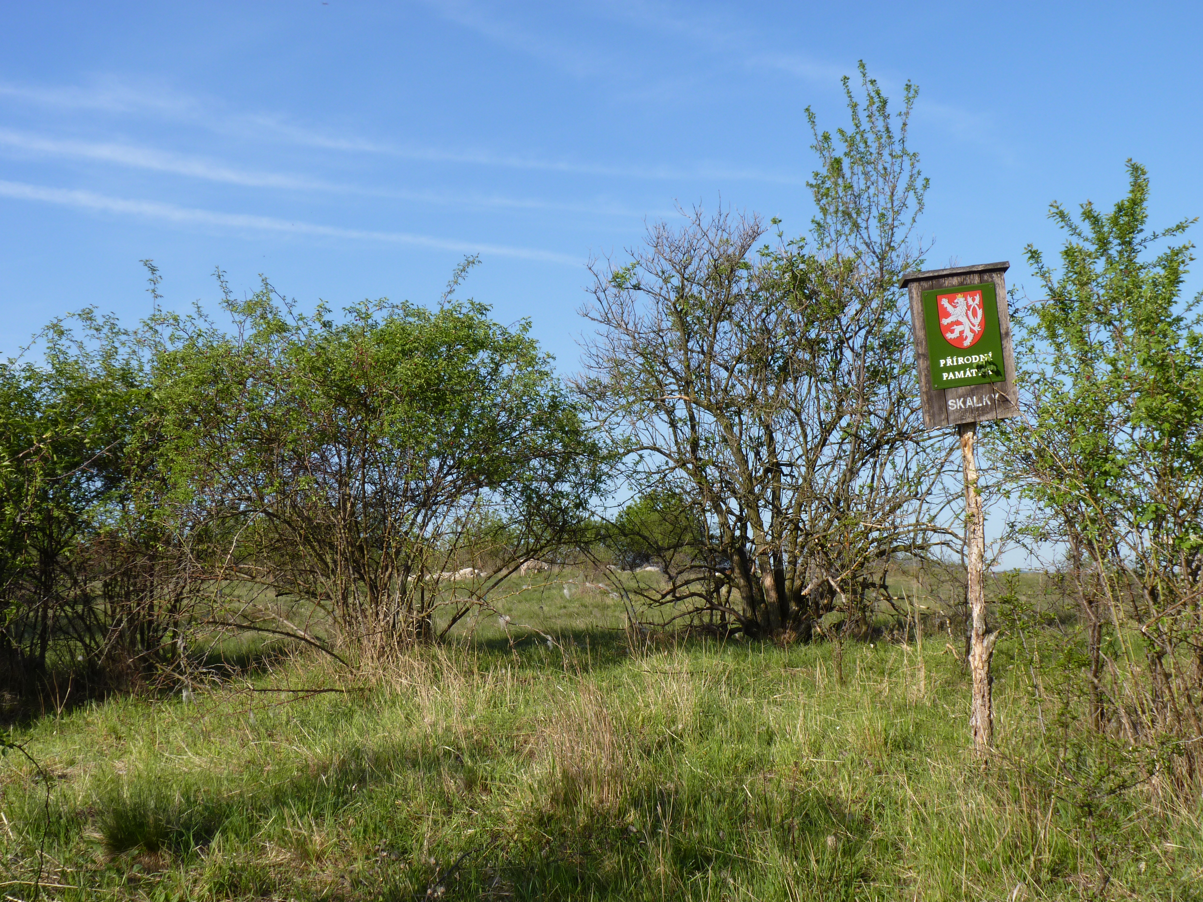 Natural monument "Skalky", Znojmo District, South Moravian Region, Czech Republic Project: Chráněná území